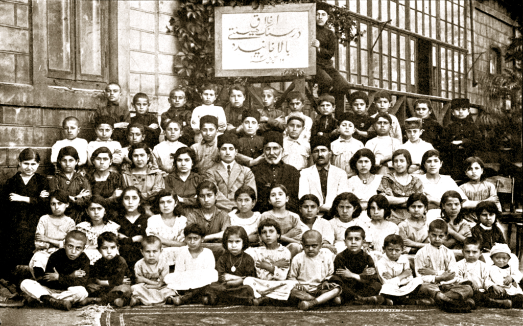 A Baha'i "character building" class in Baku, Russia, 1926. This very interesting picture shows a group of Baha'i children receiving instructions in the principles of character training.